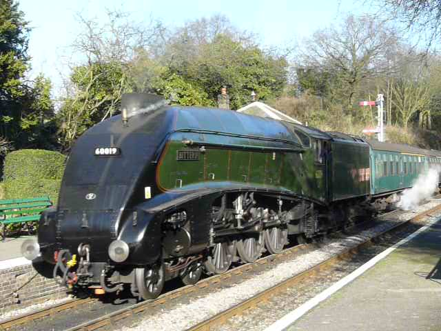 Bittern Arrives at Medstead & Four Marks Station